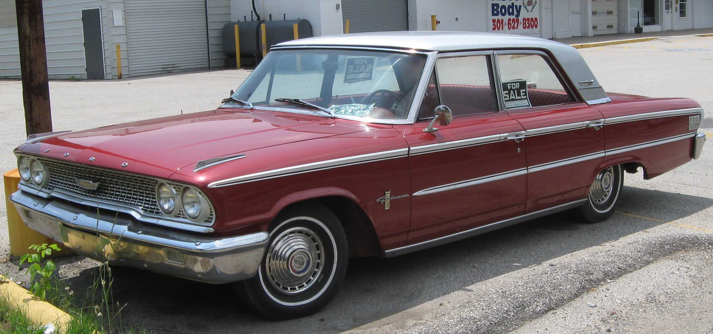 1963 Ford Galaxie 500 4-Door Sedan, photographed in Upper Marlboro, Maryland, USA.